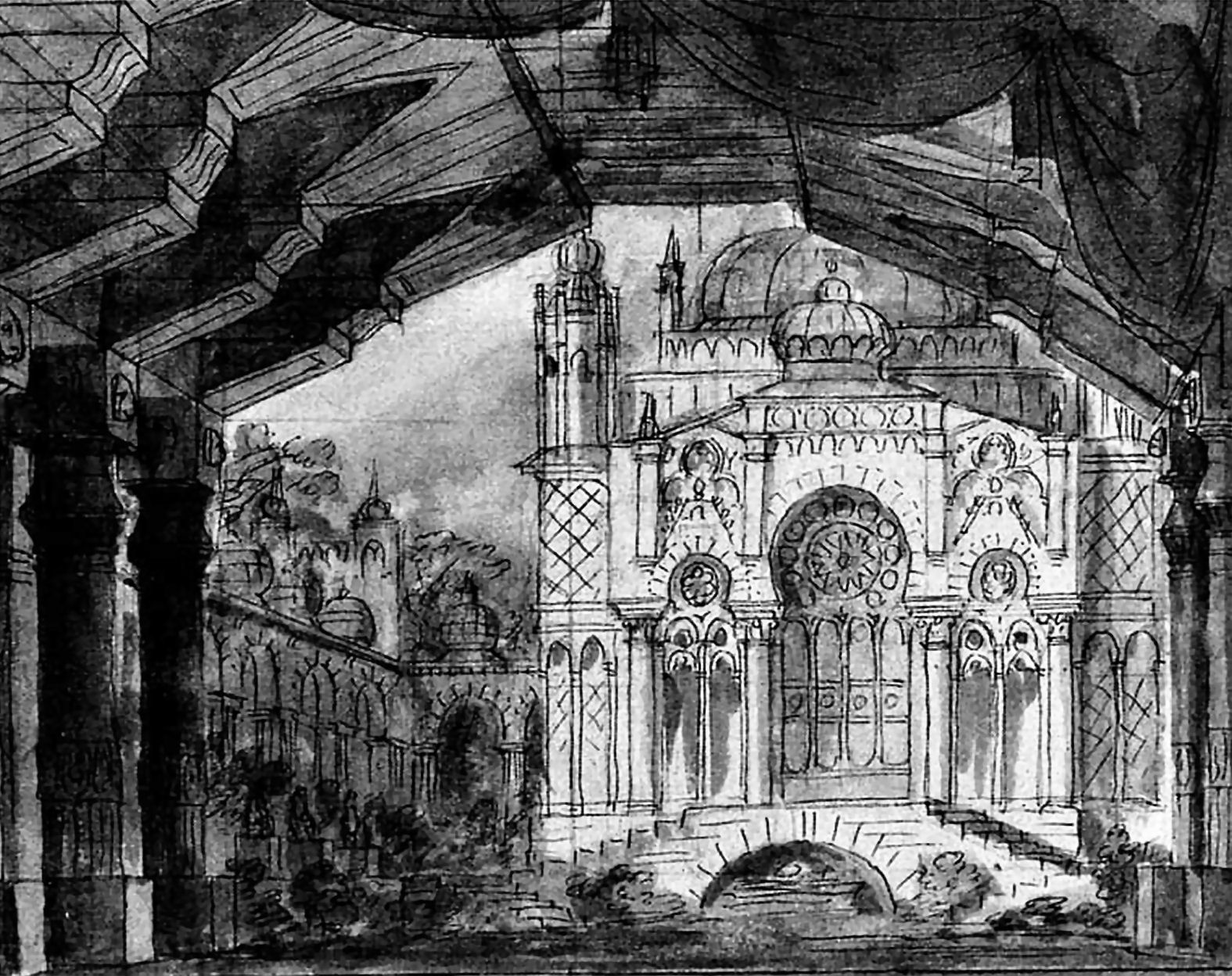 Francesco Bagnara's stage set (1835) for Giacomo Meyerbeer's Il crociato in Egitto (Act I, Scene 5)